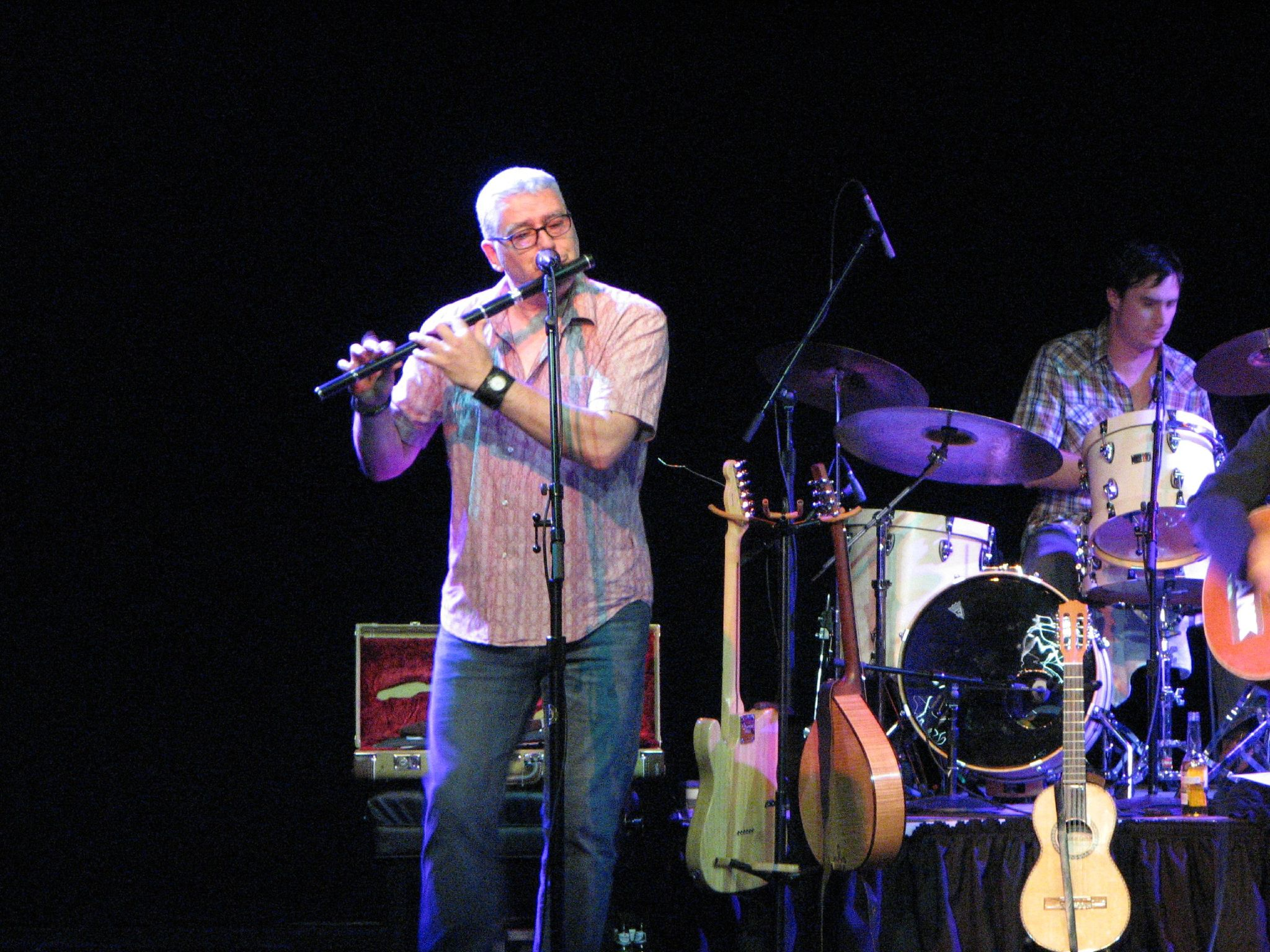 Geoffrey Kelly of the The Paperboys performing at the Triple Door in Seattle, Washington in November 2006.